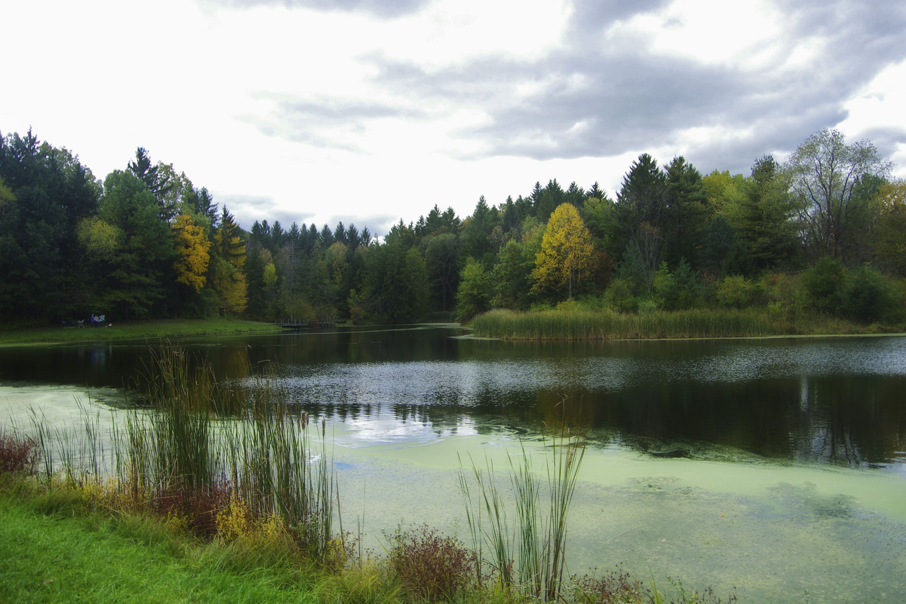 Horseshoe Pond, Cuyahoga Valley National Park, Ohio